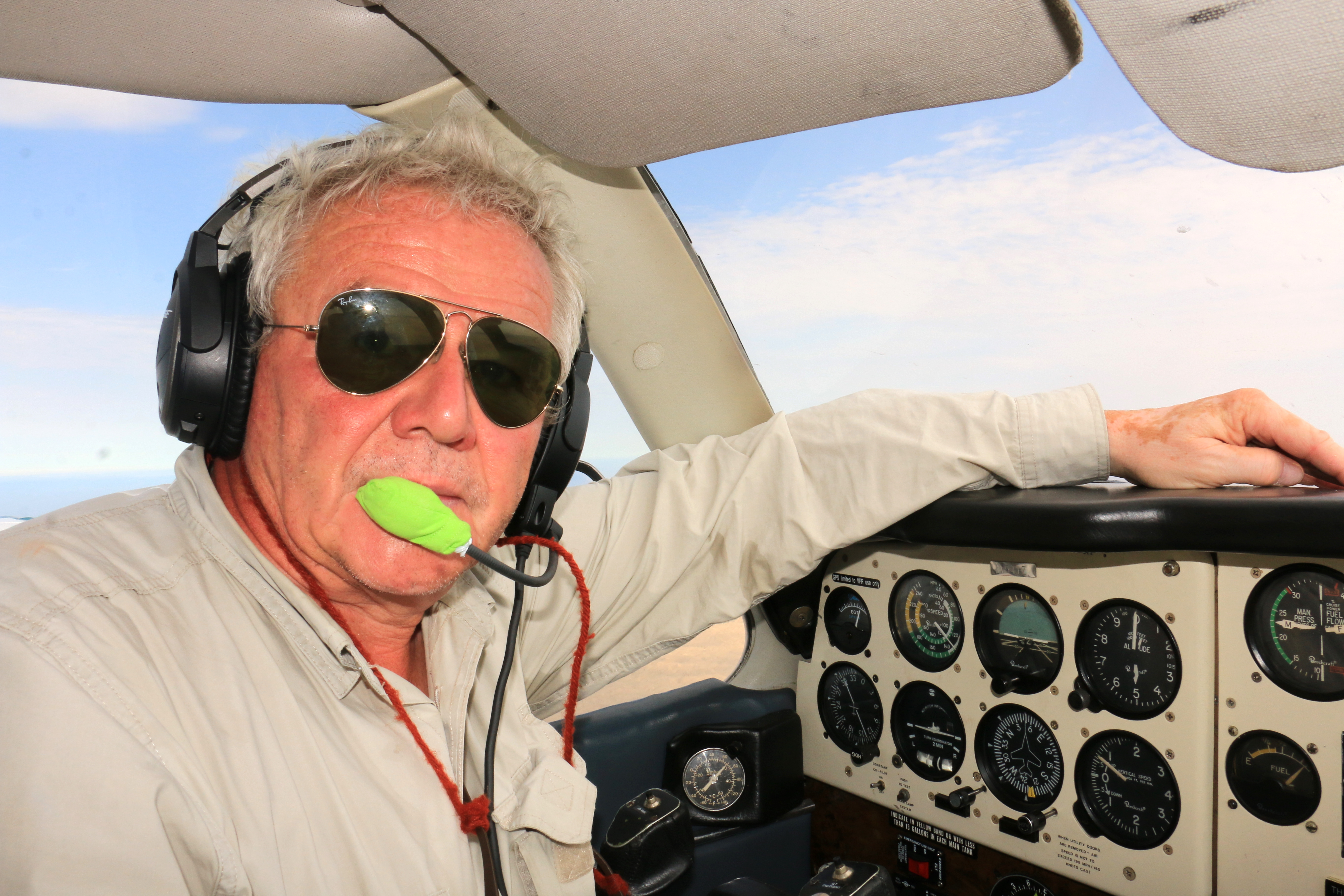 Wikipedia User Hanspeter